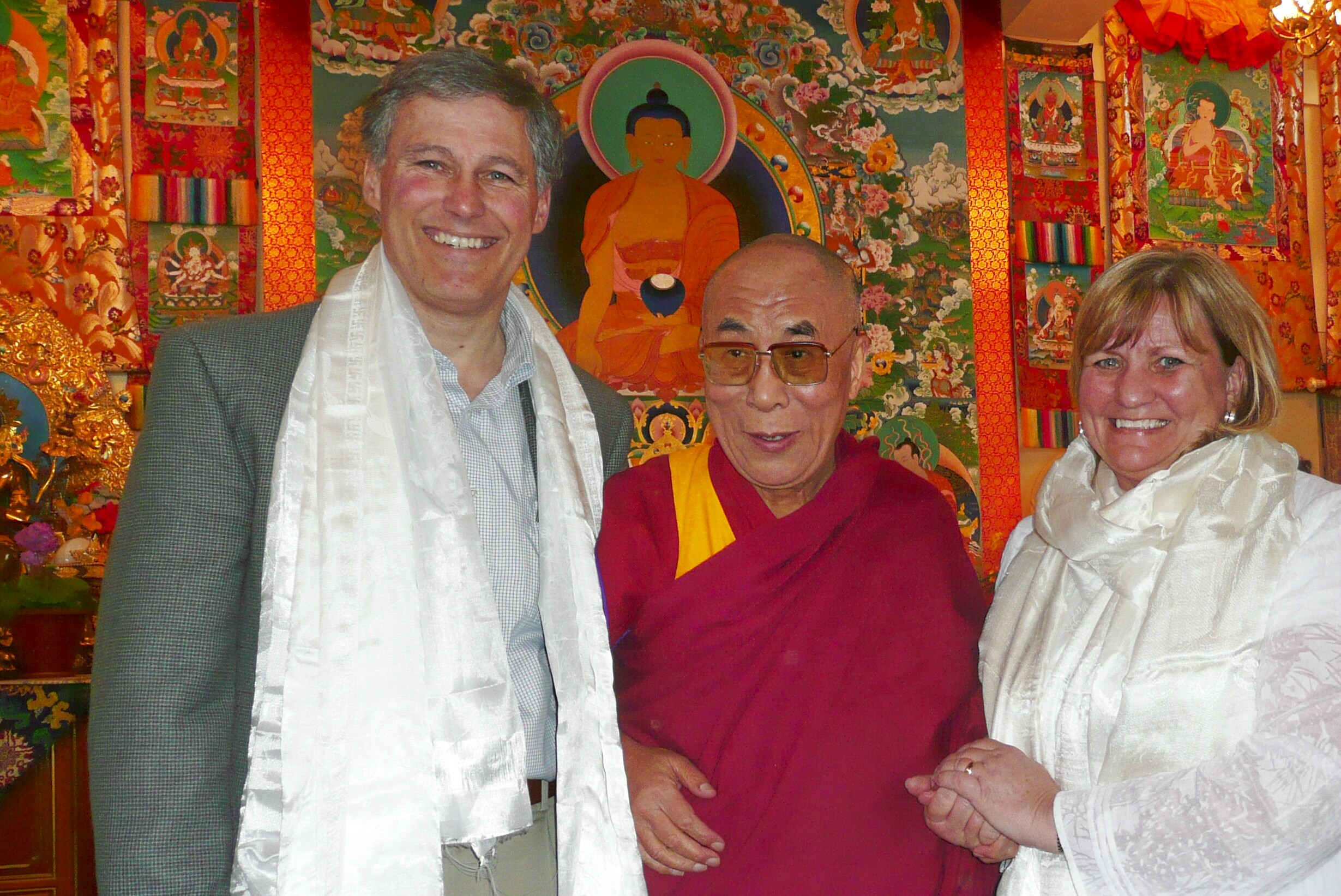 U.S. Rep. Jay Inslee (D-Wash.) and his wife, Trudi, meet the Dalai Lama. Their visit was part of a weeklong congressional fact finding trip focused on global warming that was led by House Speaker Nancy Pelosi (D-Calif.) in March.